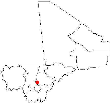 Barouéli, Mali Location Map.